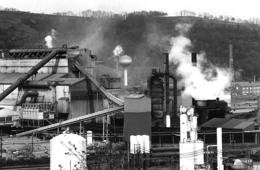 The USX Edgar Thomson Plant (part of the Mon Valley Works) viewed from across the Monongahela river.